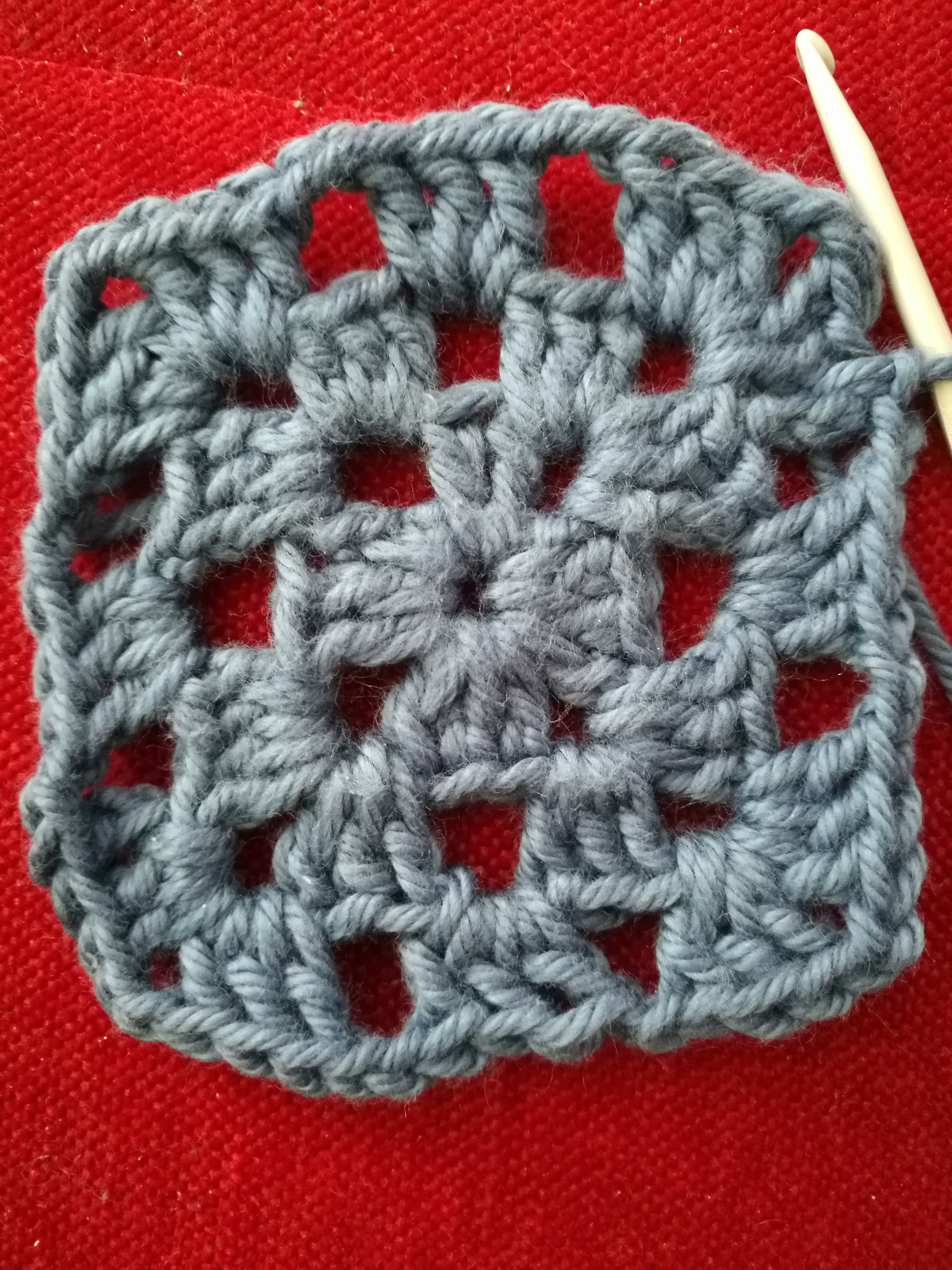 Crocheted granny square and crochet hook